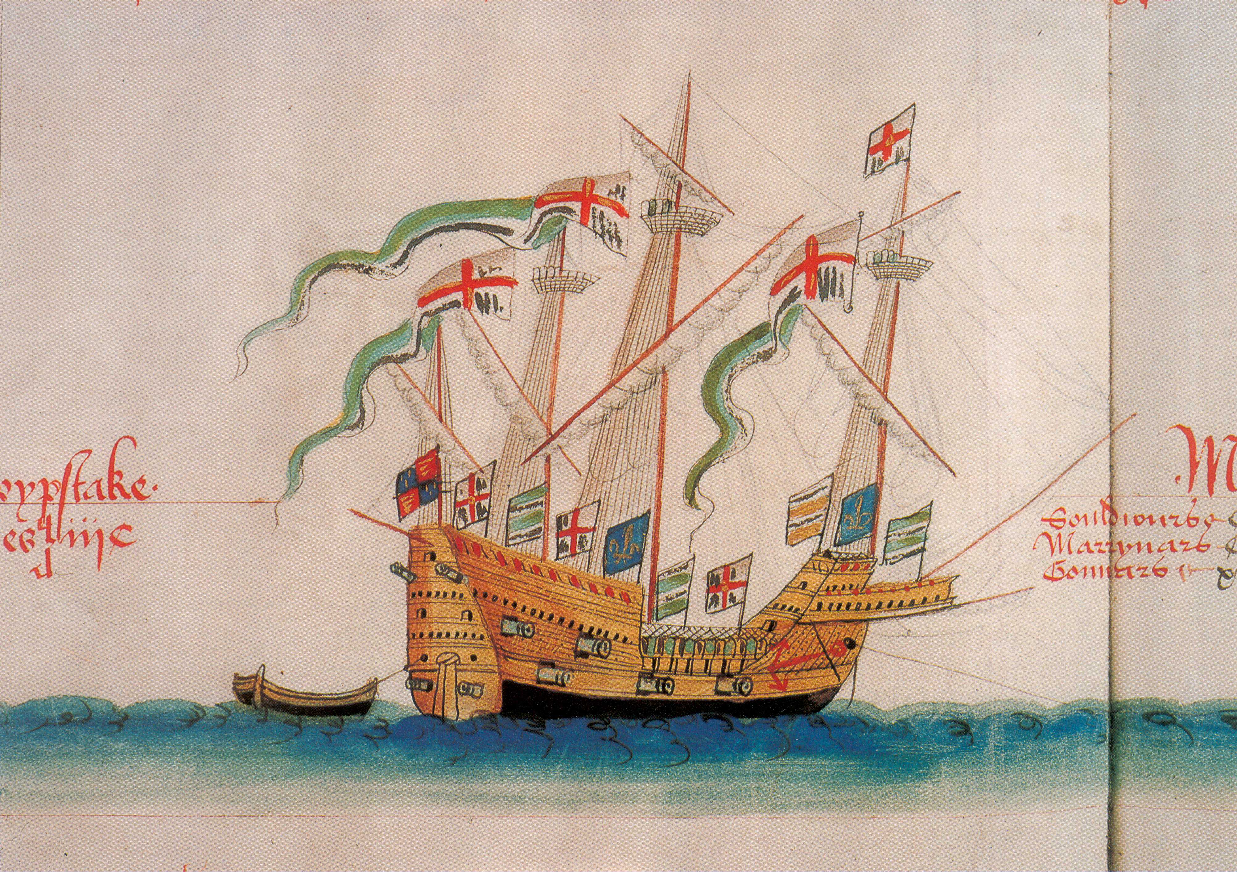 Illustration of the carrack Sweepstake. Notification about possible deletion